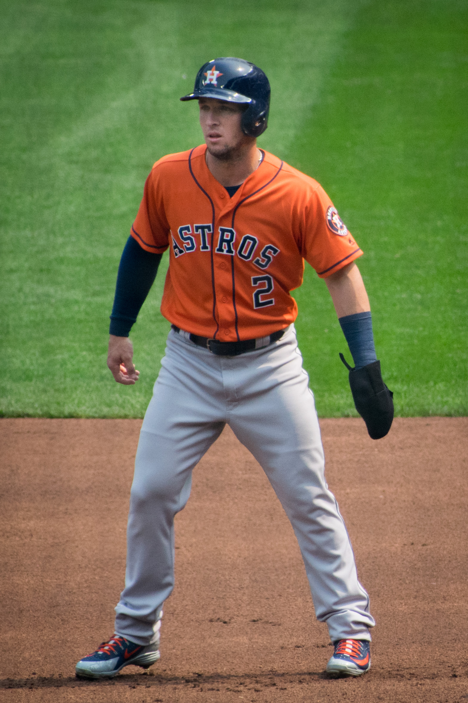 Houston Astros infielder Alex Bregman on base against the Seattle Mariners on August 22, 2018.